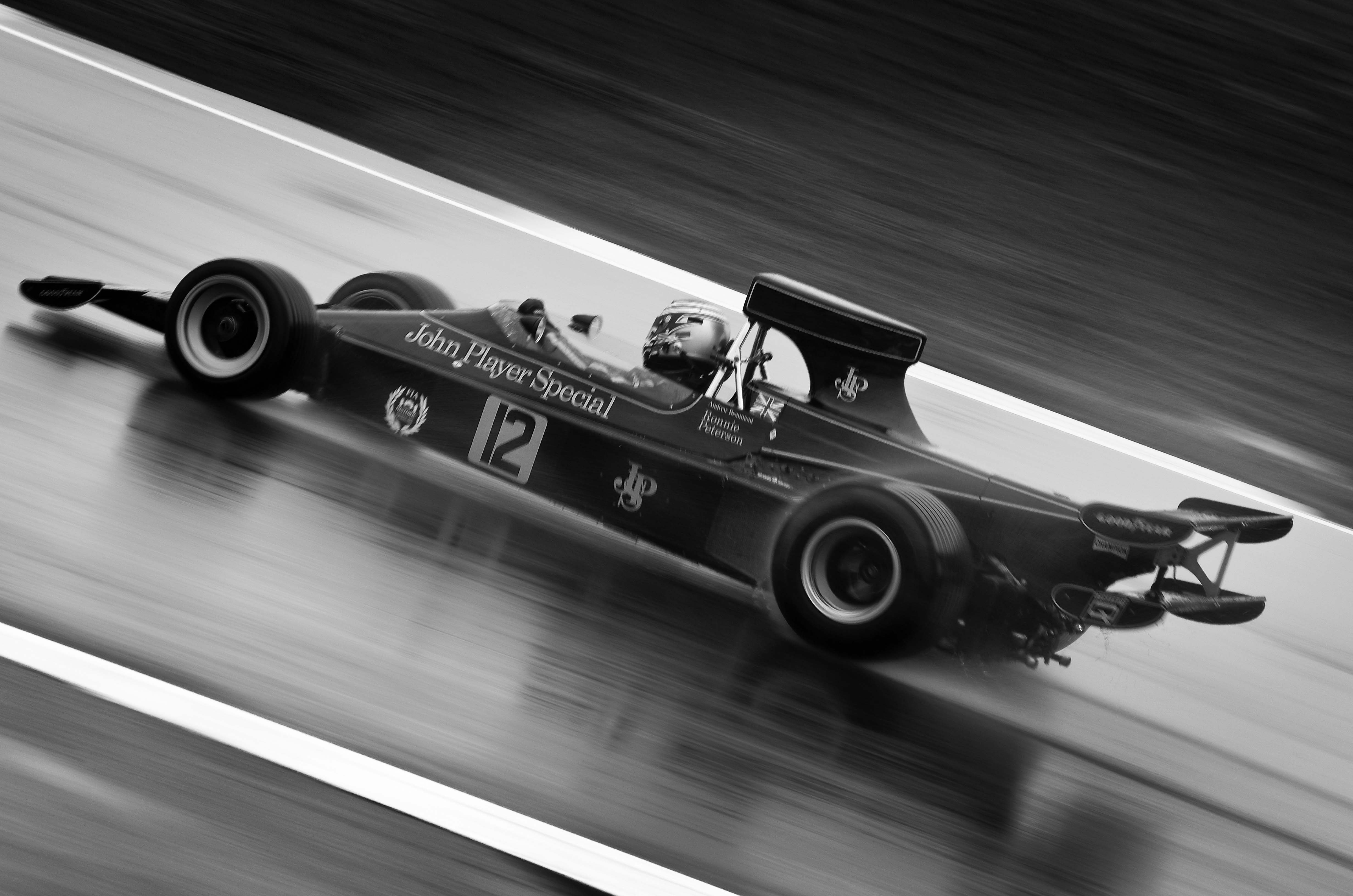 Date Taken:- 06/07/12 Image Shows:- Ronnie Peterson's classic Lotus Formula One (F1) John Player Special races around a wet Silverstone race circuit as part of the Historic Race Series during the Santander British Grand Prix weekend.